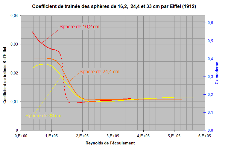 Eiffel's coefficient of drag K for three spheres of diameter 16.2, 24.4 and 33cm as measured by Eiffel in its wind tunnel in 1912. The graph shows the equivalent modern Cd as well as the Reynolds of the measurements.